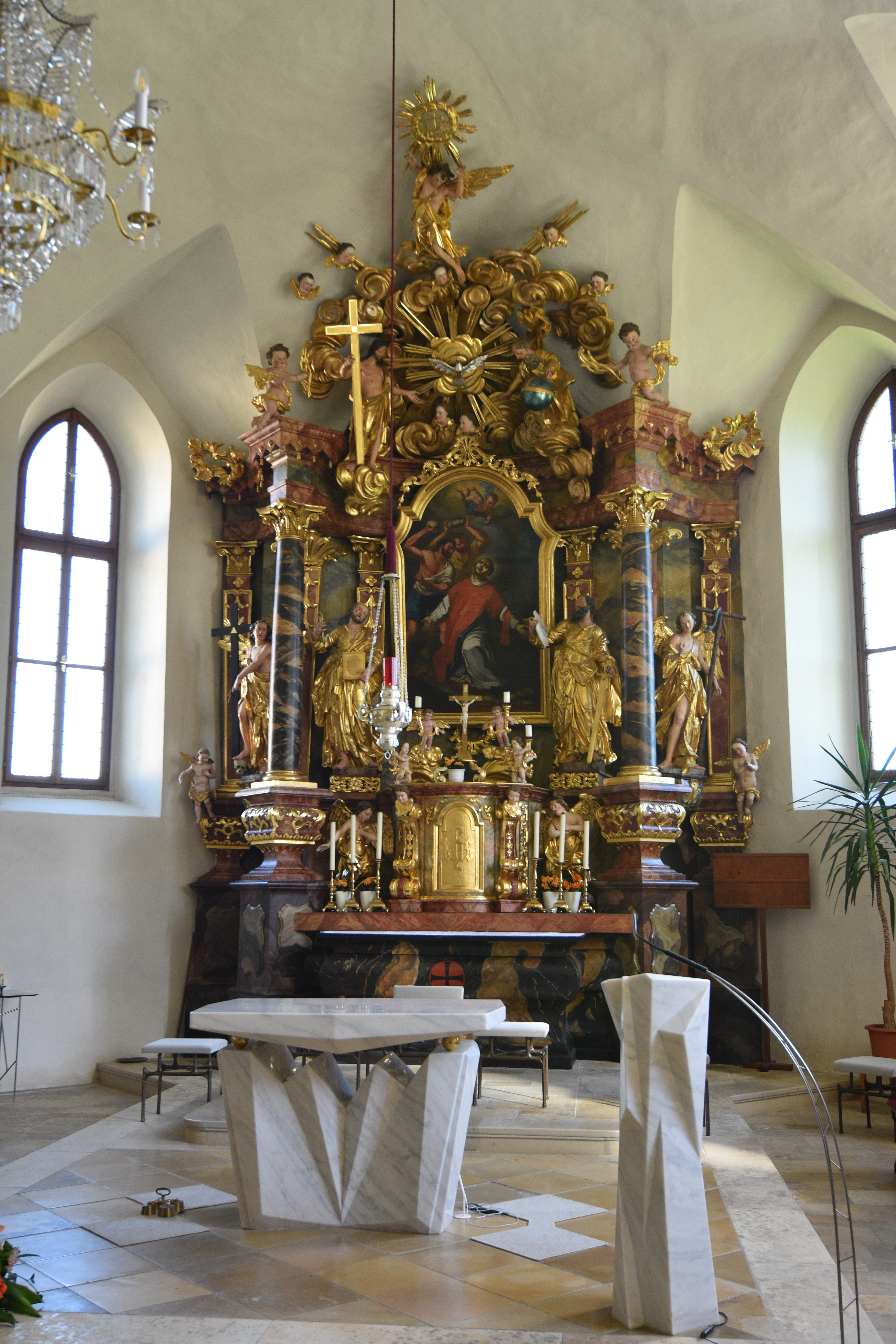 Church Pfarrkirche Dechantskirchen Interior